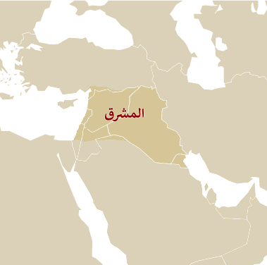 Map depicting the area most conservatively known as the Mashriq